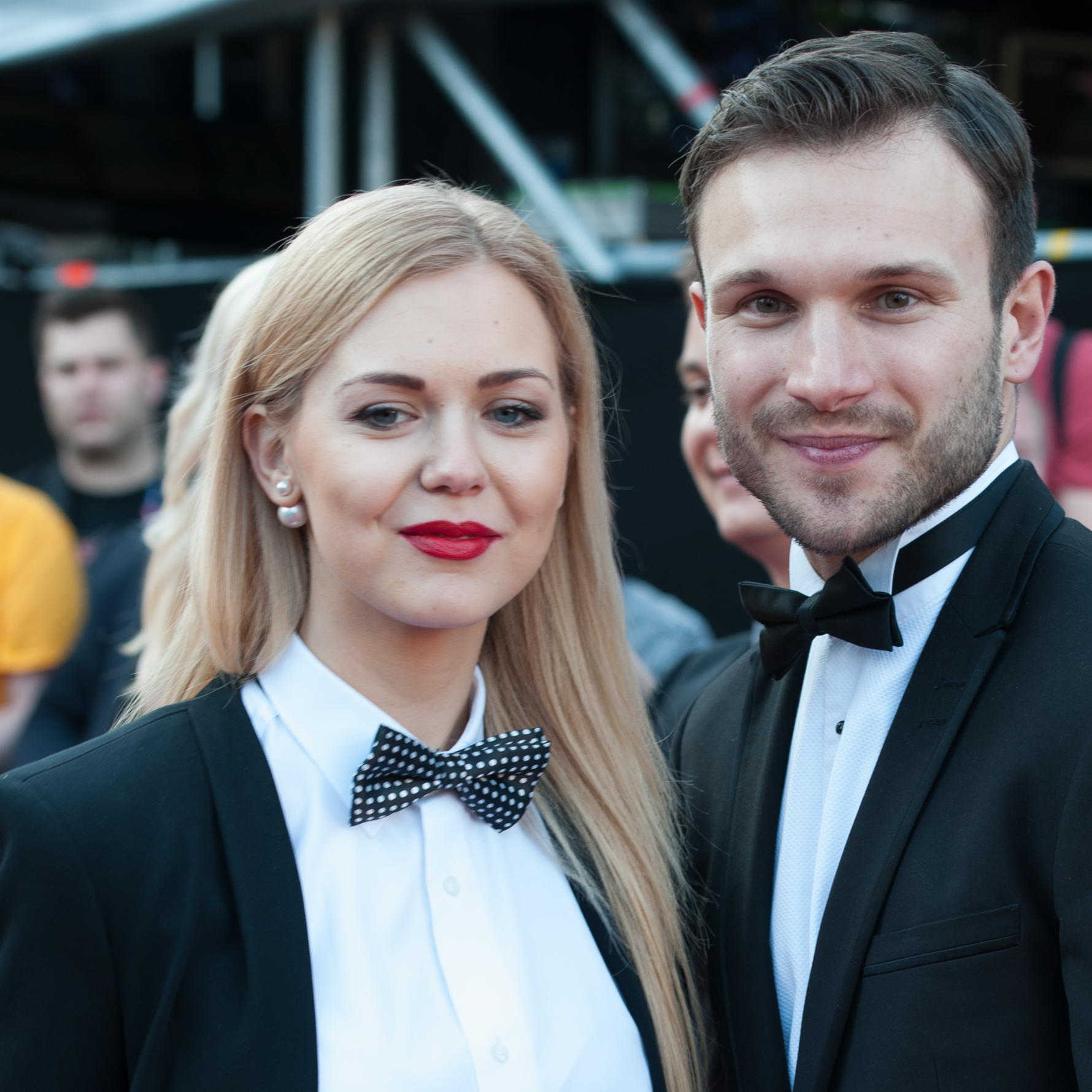 Eurovision Song Contest Vienna 2015: Monika Linkytė & Vaidas Baumila